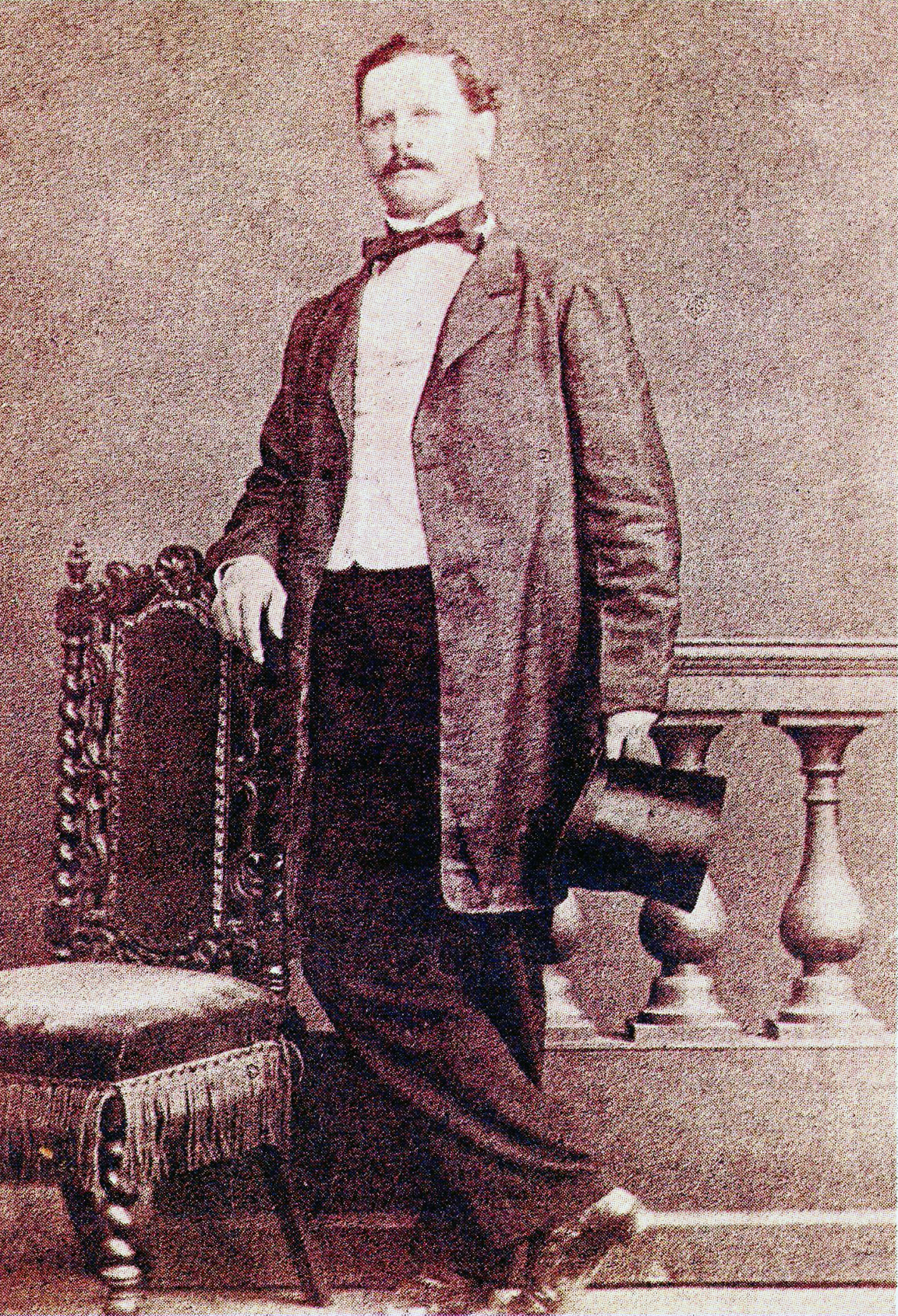 Pierre Even (1828-1886), Luxembourger politican, Mayor of Beaufort (1866-1886) and Member of the Parliament (Chamber of Deputies of Luxembourg).